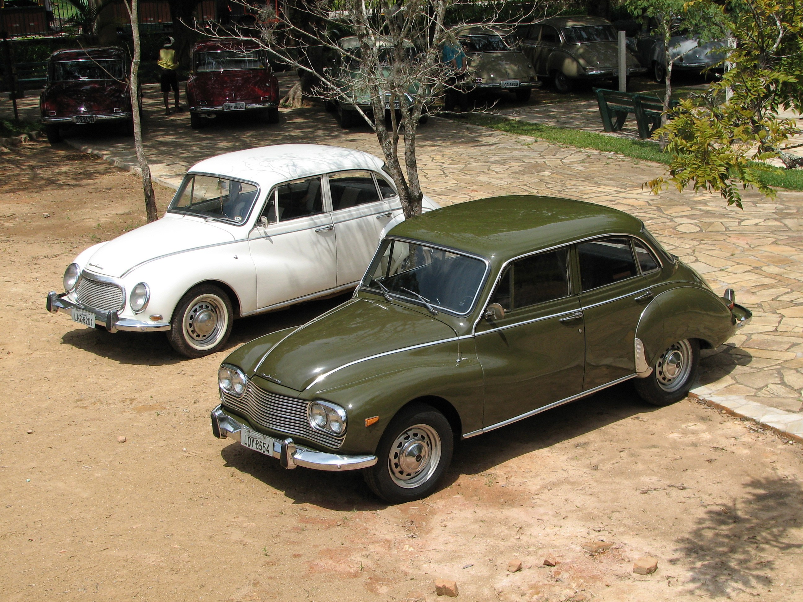 Style changes: in 1967, the Brazilian DKW Belcar got a new grile and four headlamps.